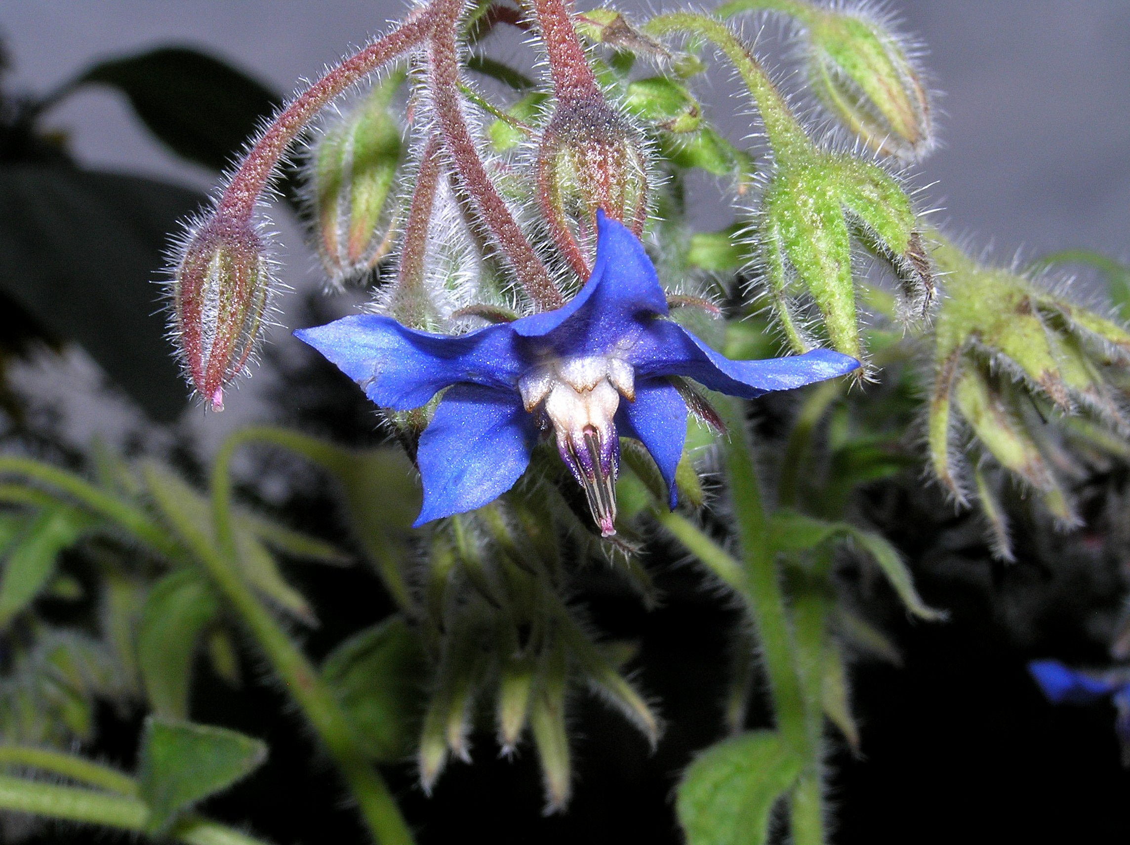 Borago officinalis